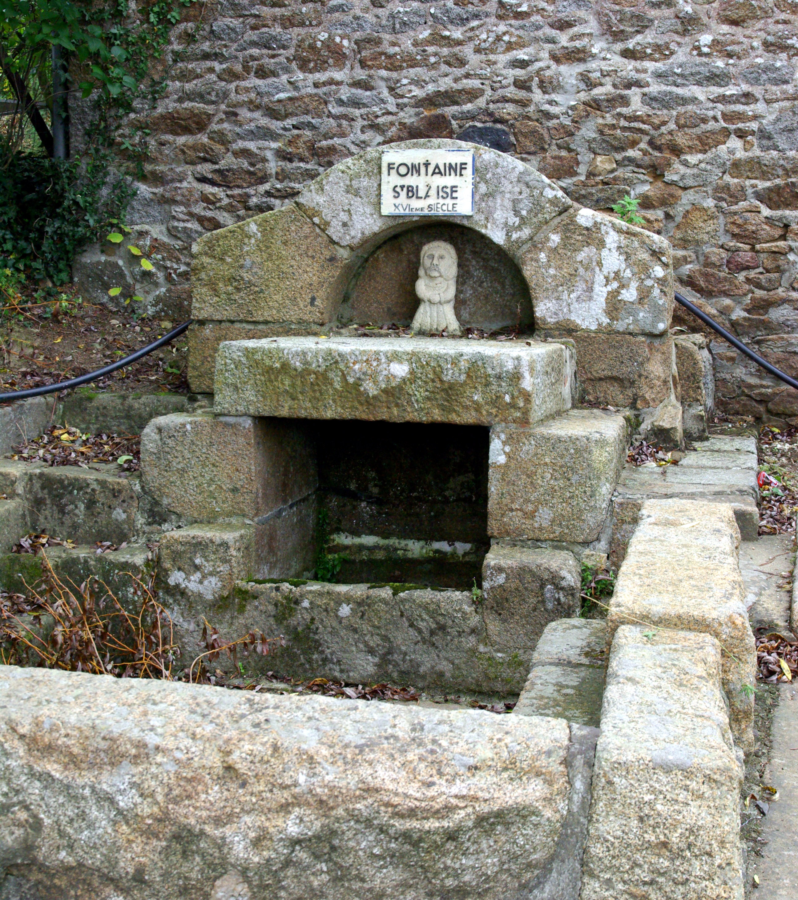 St.Blaise fountain